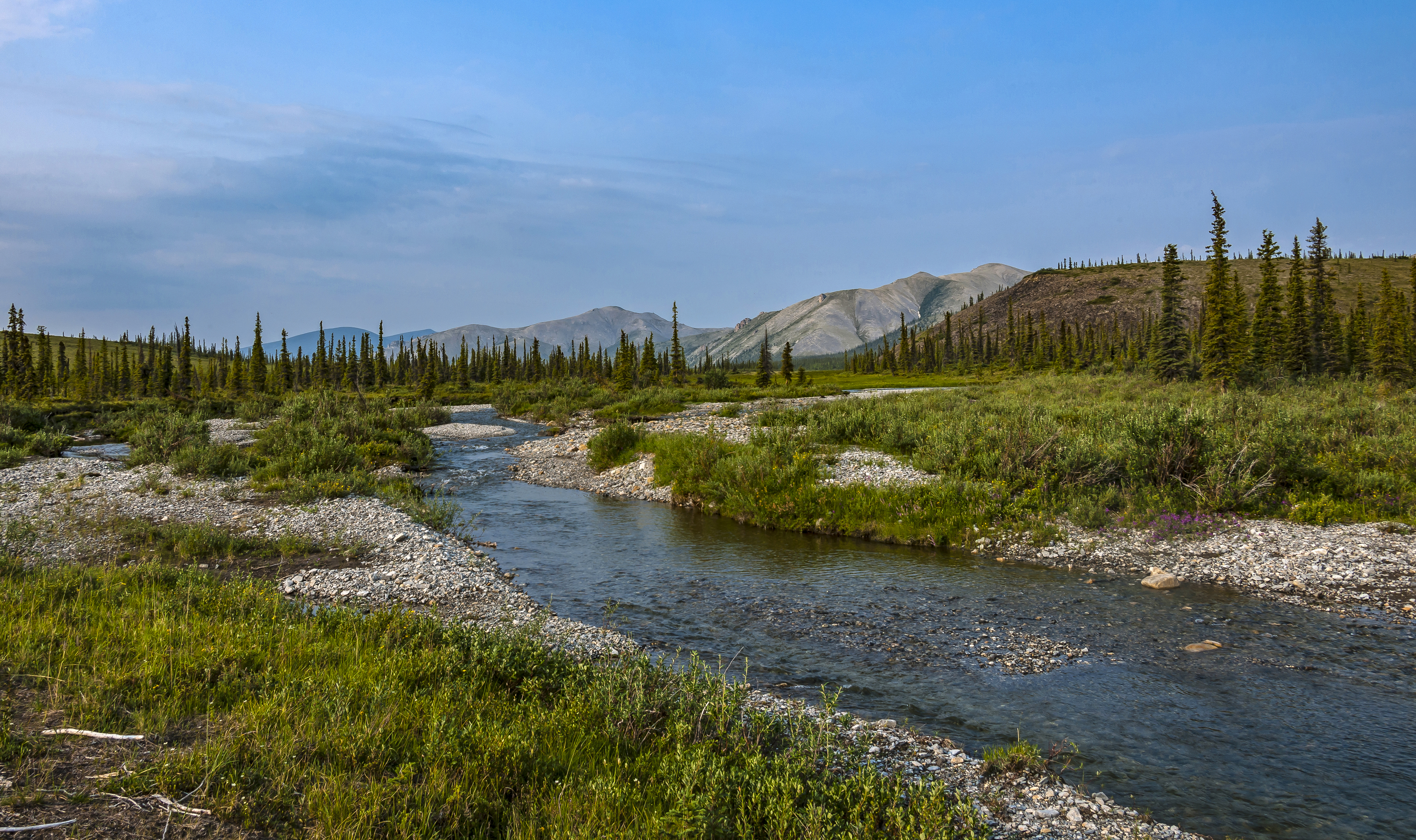 Crooked Creek, just above where it flows into the Firth River in Canada's Ivvavik National Park